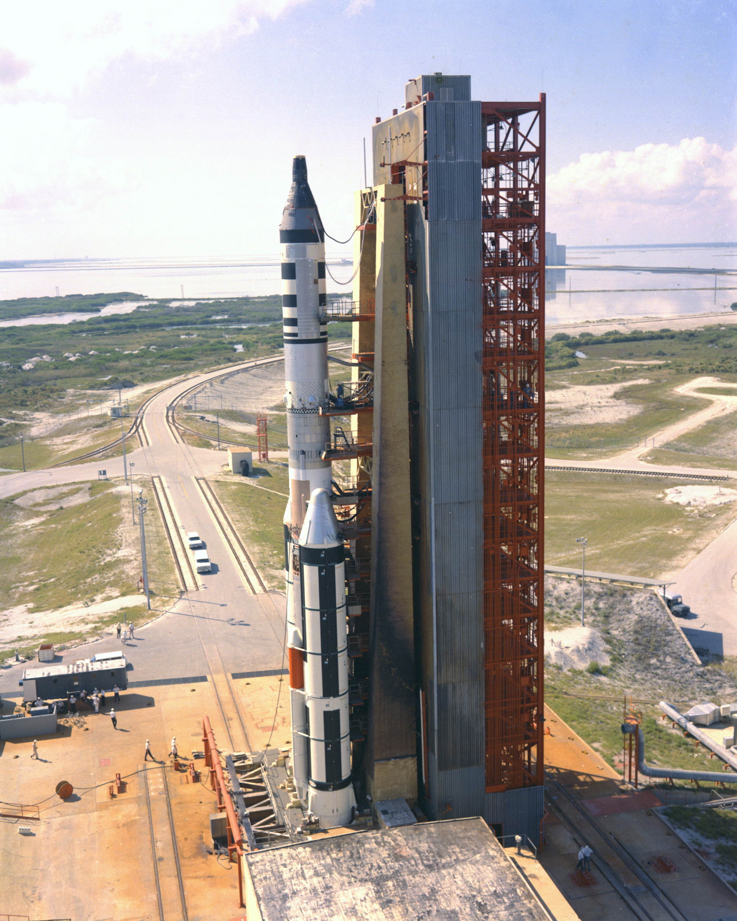 Titan-3C with MOL-Mockup and Gemini-B capsule